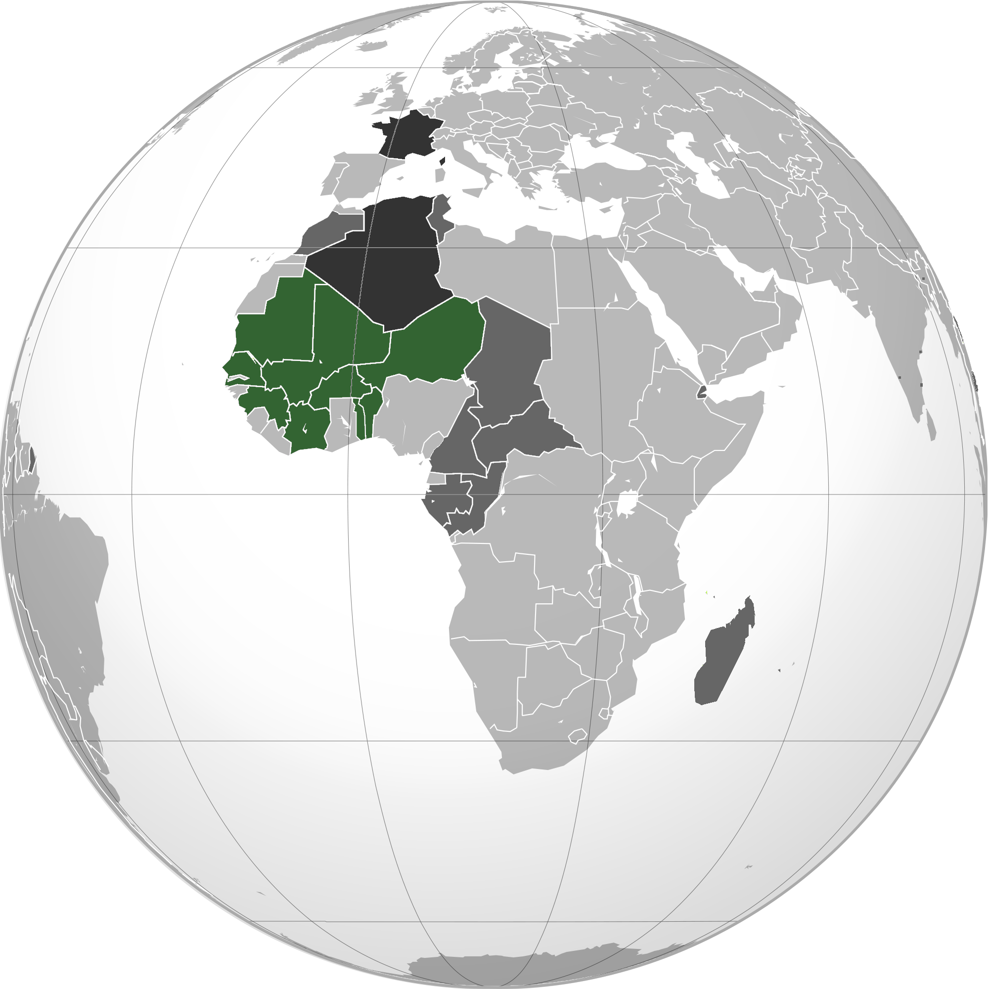 Green: French West AfricaDark gray: Other French possessionsDarkest gray: French Republic